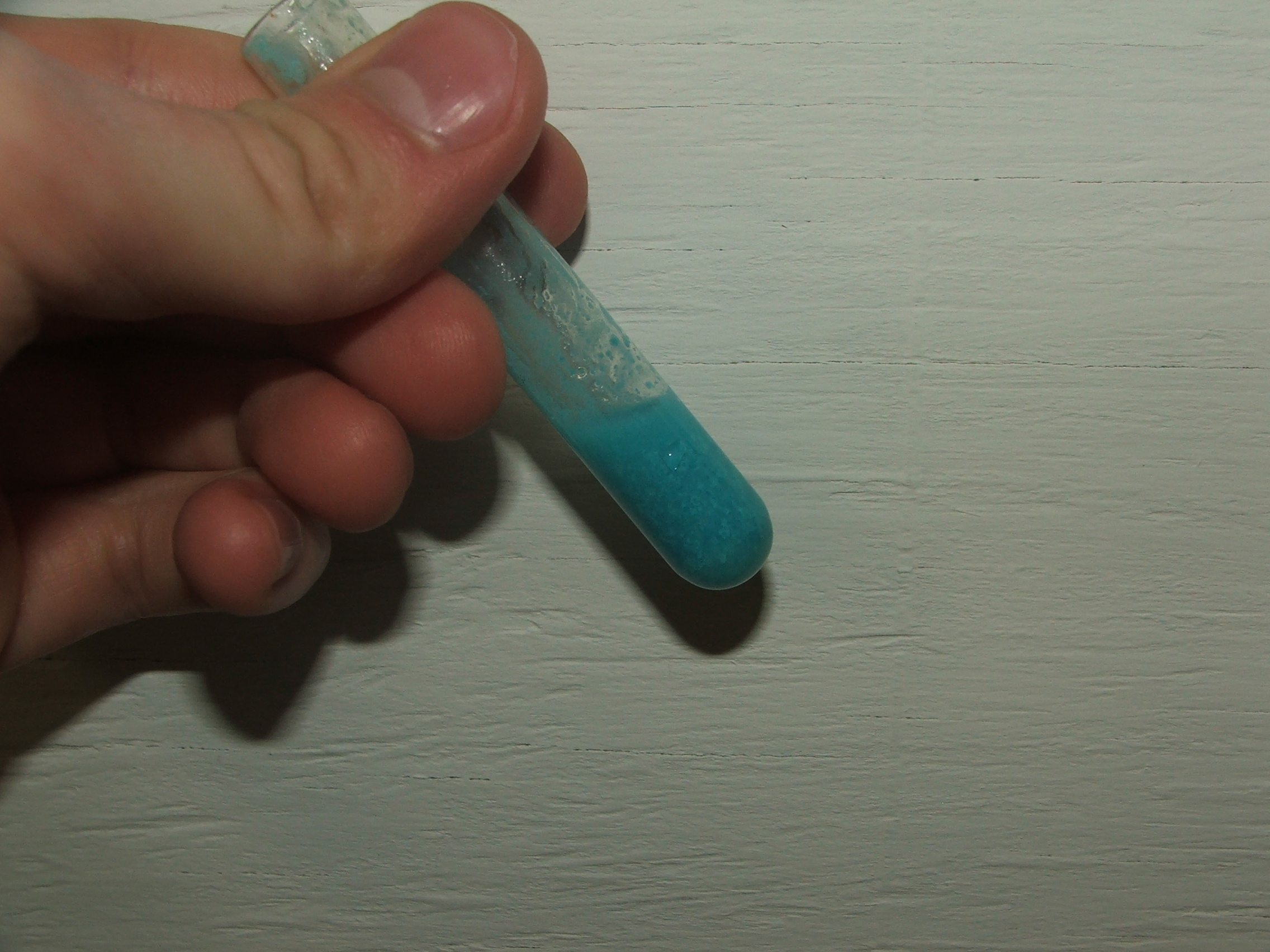 Copper(II) hydroxide made by reaction of dilute ammonia with copper sulfate (concentrated ammonia makes tetramminecopper(II) sulfate